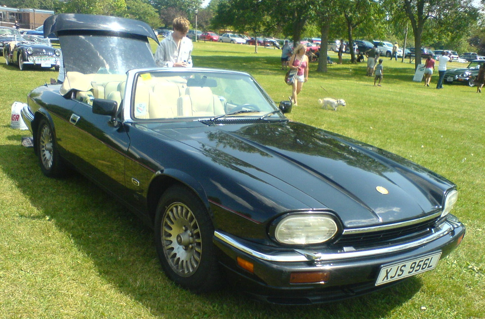 Jaguar XJS photographed in Ottawa, Ontario, Canada at the 2010 Ottawa British Auto Show.